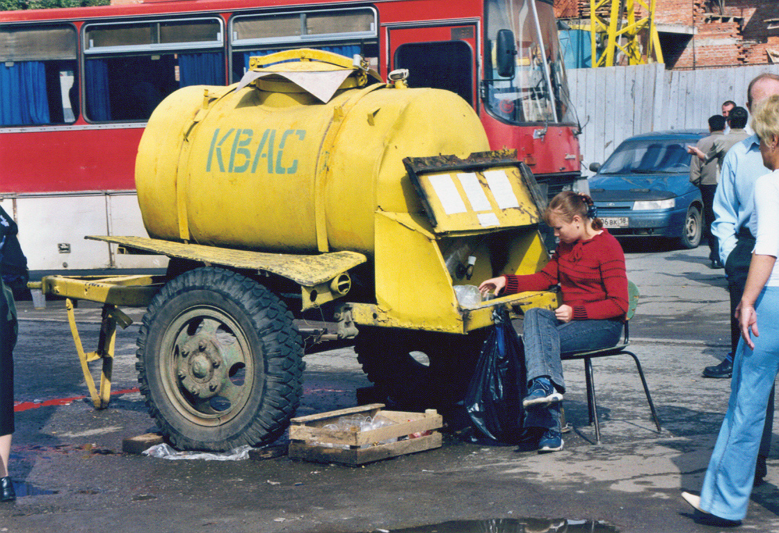 Kvas, a fine drink in Russia.